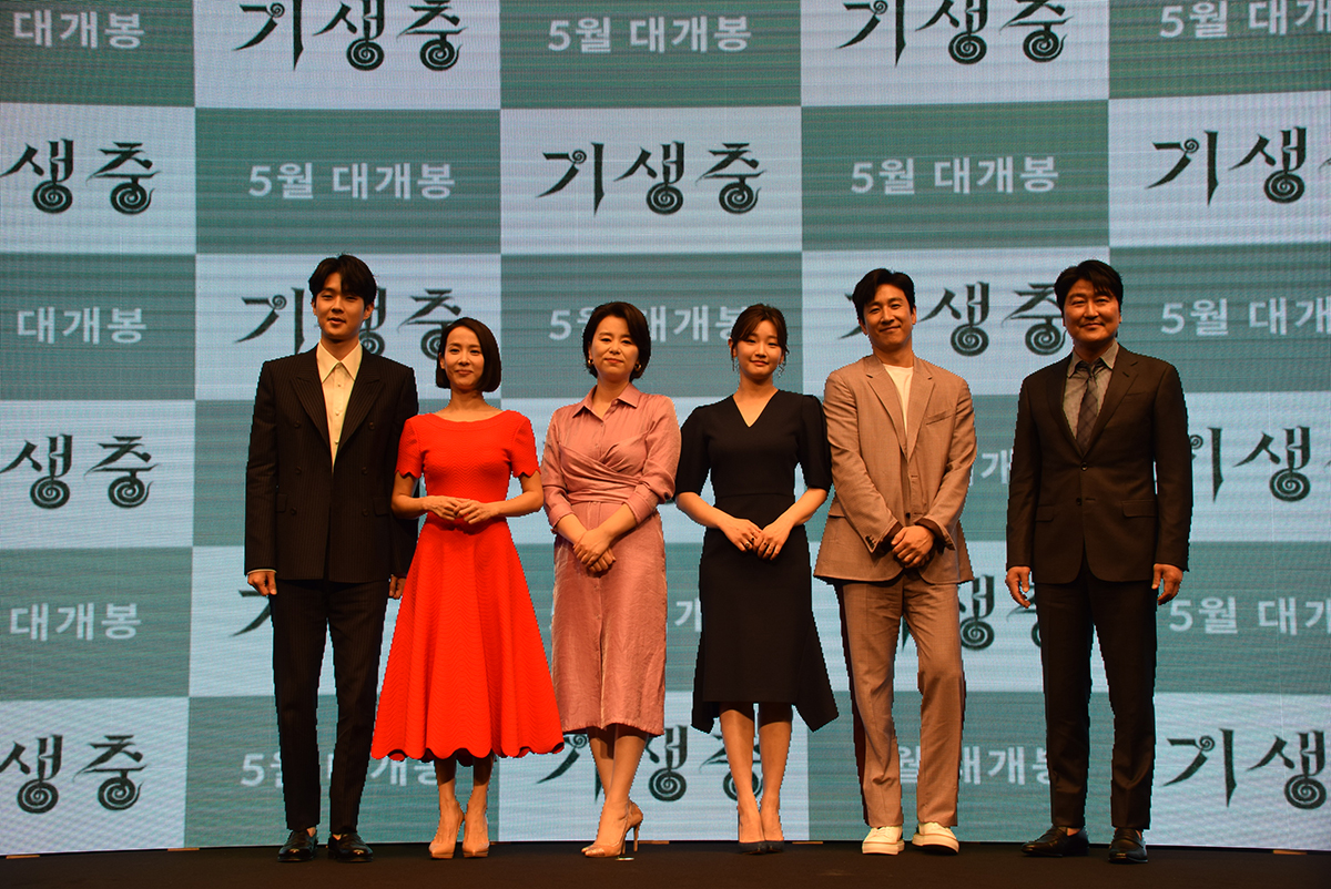 From left to right: Choi Woo-shik, Cho Yeo-jeong, Lee Jung-eun, Park So-dam, Lee Sun-kyun and Song Kang-ho.